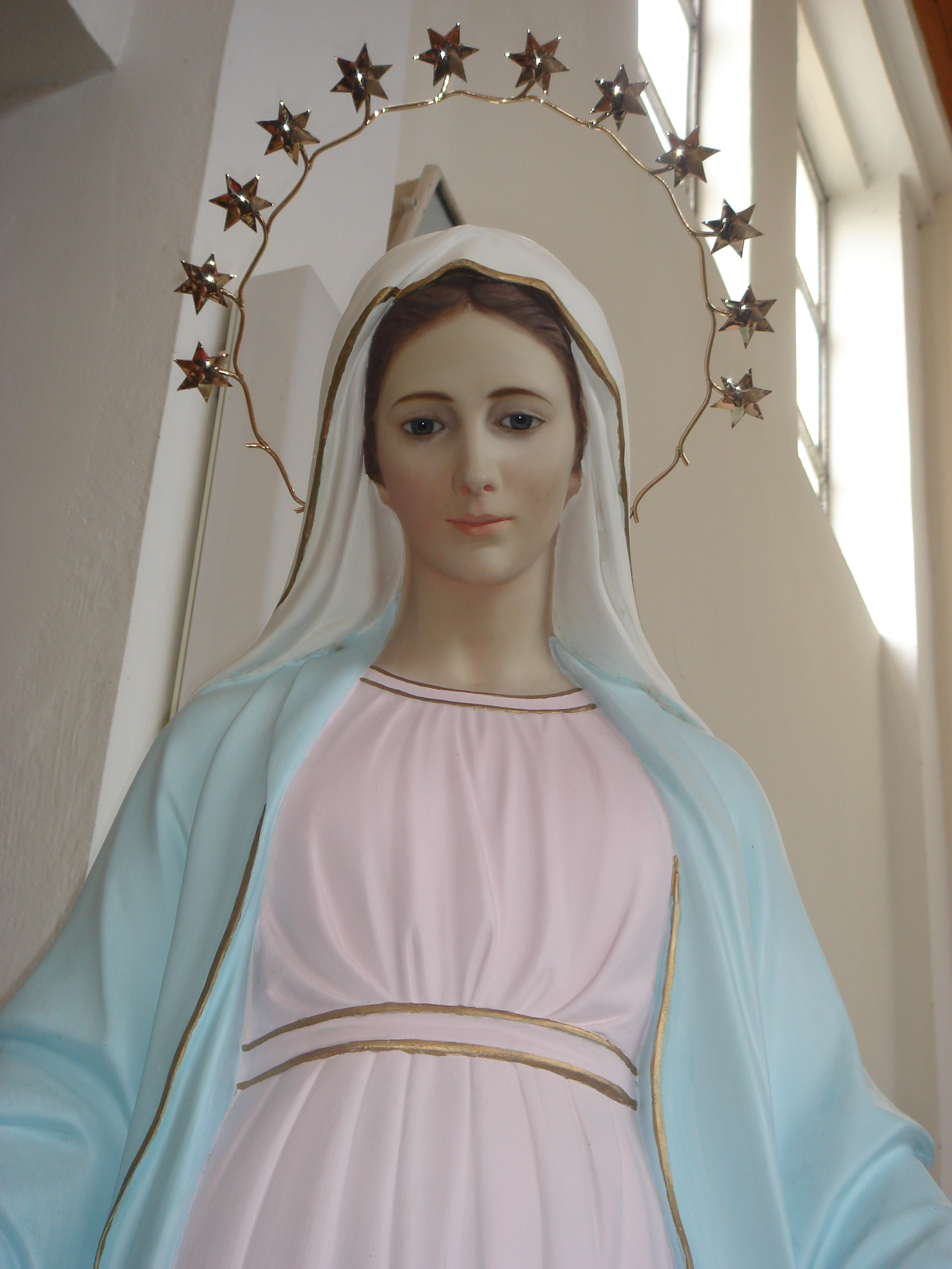 Holy Virgin "Gospa" from Tihaljina, 27km from Međugorje